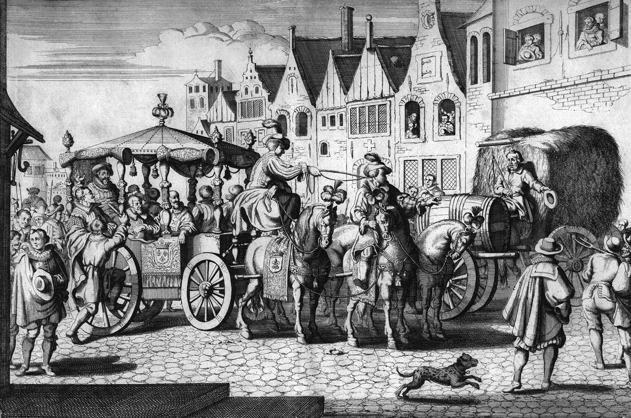 Assassination of Henry IV (Henry IV, King of France; François Ravaillac), by Gaspar Bouttats, given to the National Portrait Gallery, London in 1931. All images in this batch have a known author, but have been manually examined for strong evidence that the author was dead before 1939, such as approximate death dates, birth dates, floruit dates, and publication dates.